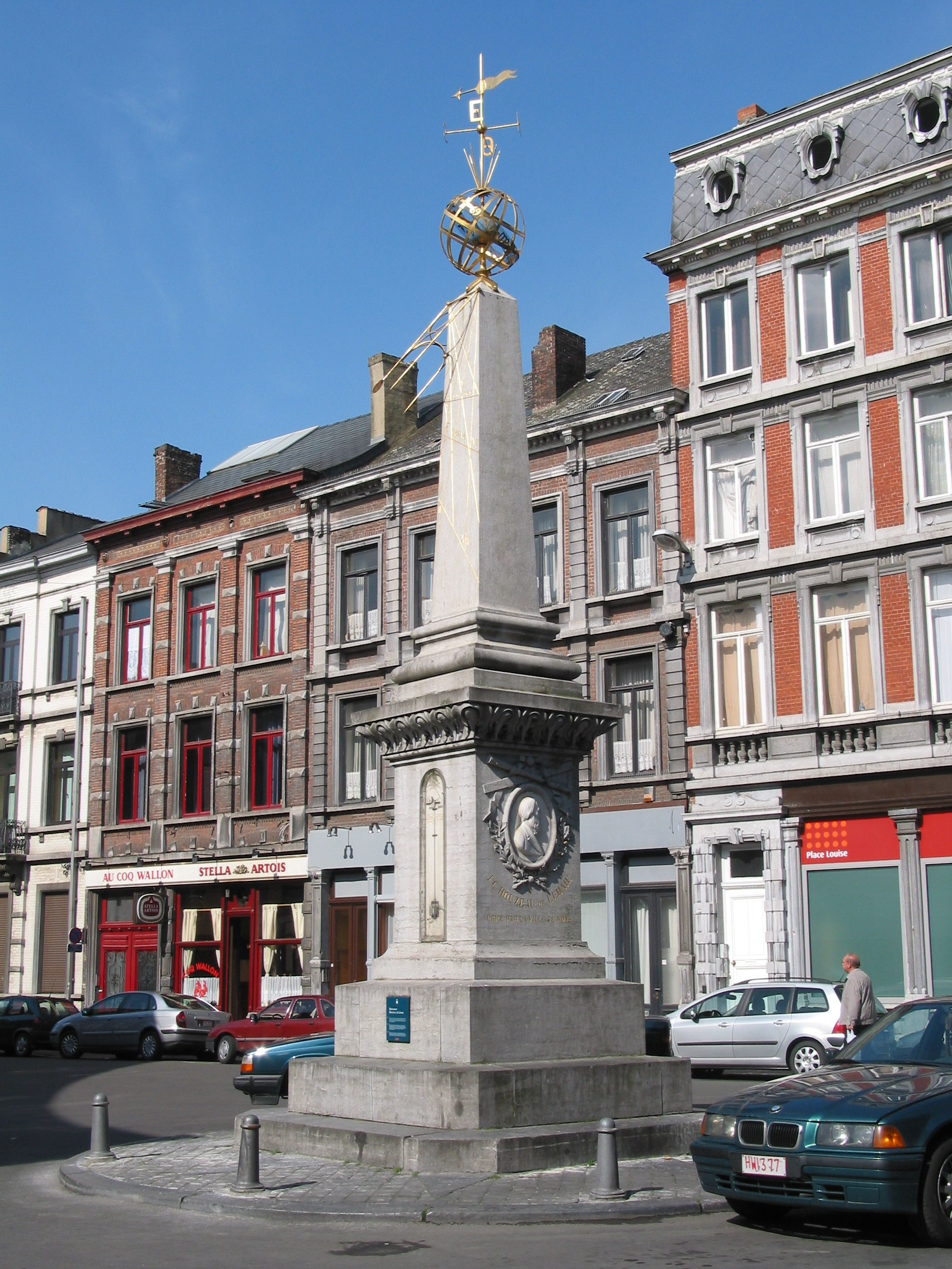 Mons (Belgium), the monument dedicated in memory of Jean-Charles Houzeau de Lehaie and his multiface sundial (XIXth century).